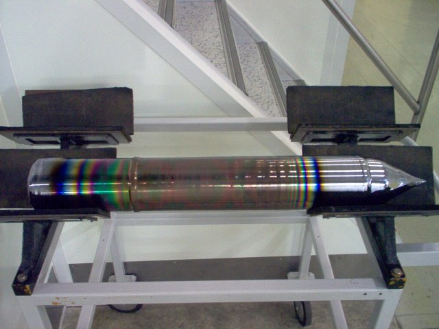 Title: Silicon single crystal Desc: Silicon single crystal made by Czochralski method Author: Twisp Date: 25.08.2005